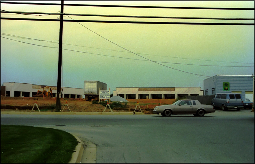 Travilah Square Shopping Center, early 1980s (courtesy of Tom Marchessault)